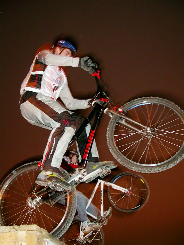 bike trial on Snowmania contest (Moscow)